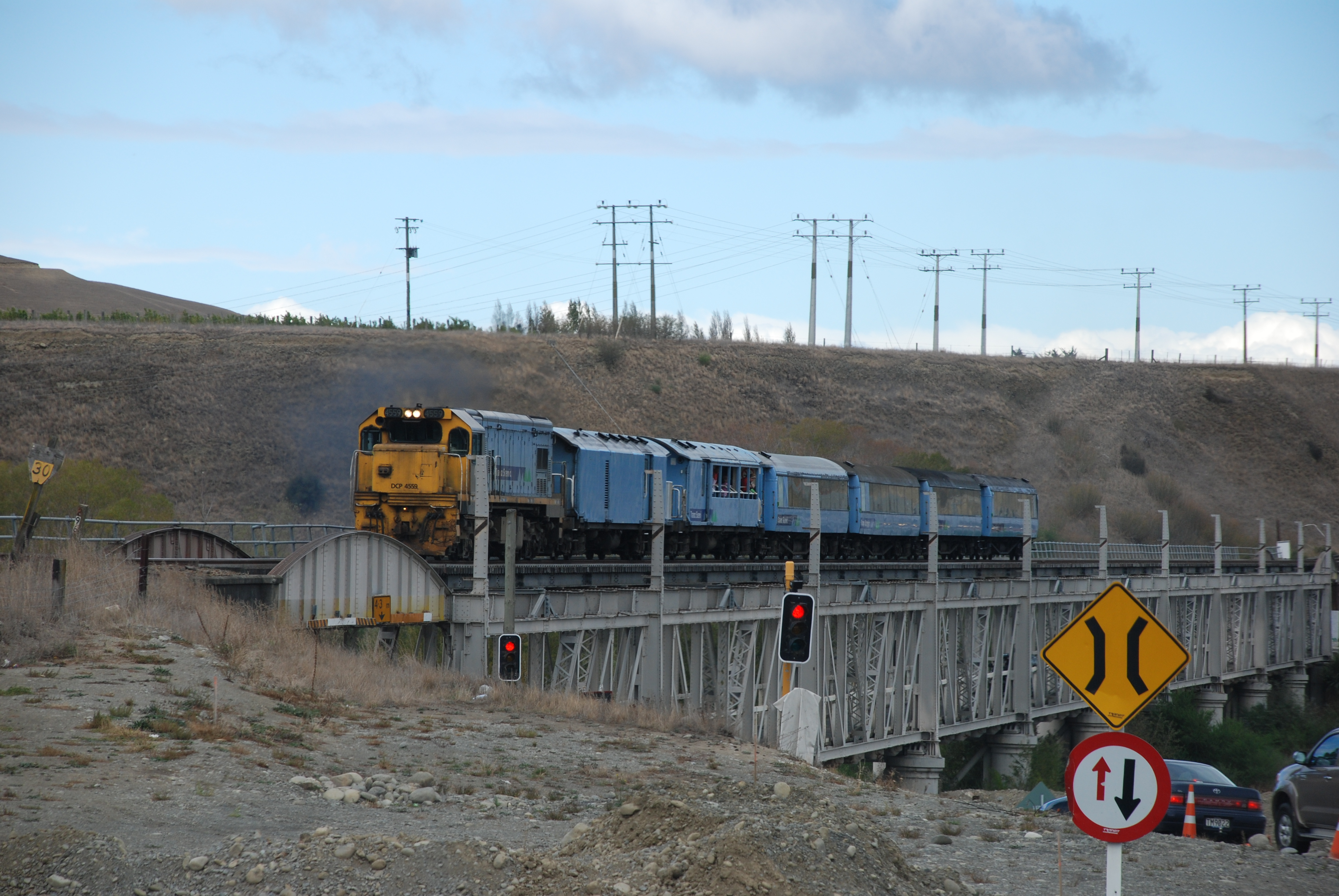 This is a weird double-decker bridge in Seddon, Marlborough, New Zealand. The bridge was replaced for road use in October 2007. The railway has the top level, and the road the lower. Photo taken on 13 April, 2007.